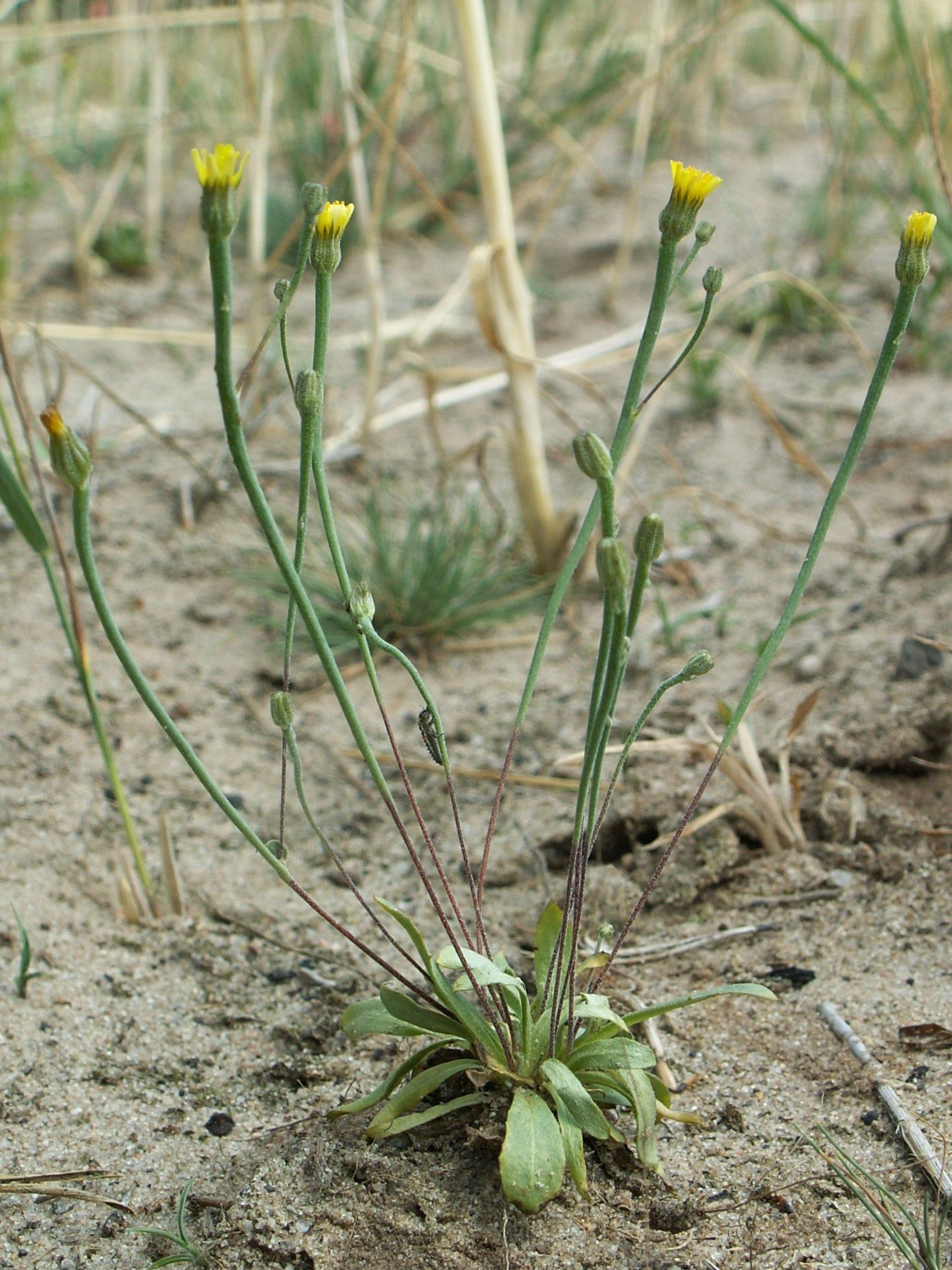 Arnoseris minima in Komarowo near Goleniów, NW Poland